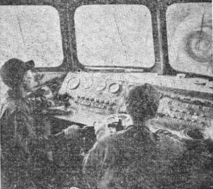 The cab of China Railways NM1 Dongfeng DMU train.